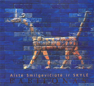 Group SKYLE album "Babilonas" top cover